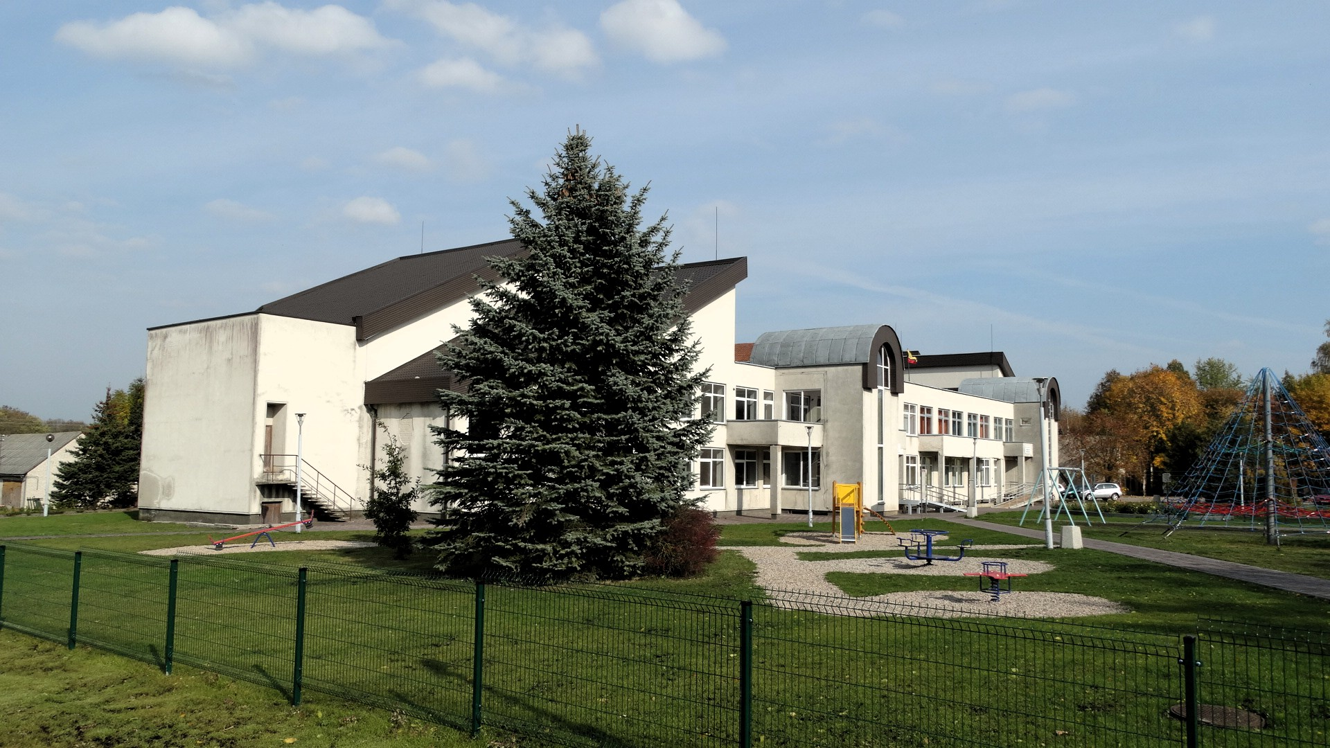 Multifunctional center, eldership, Krokialaukis, Alytus district, Lithuania